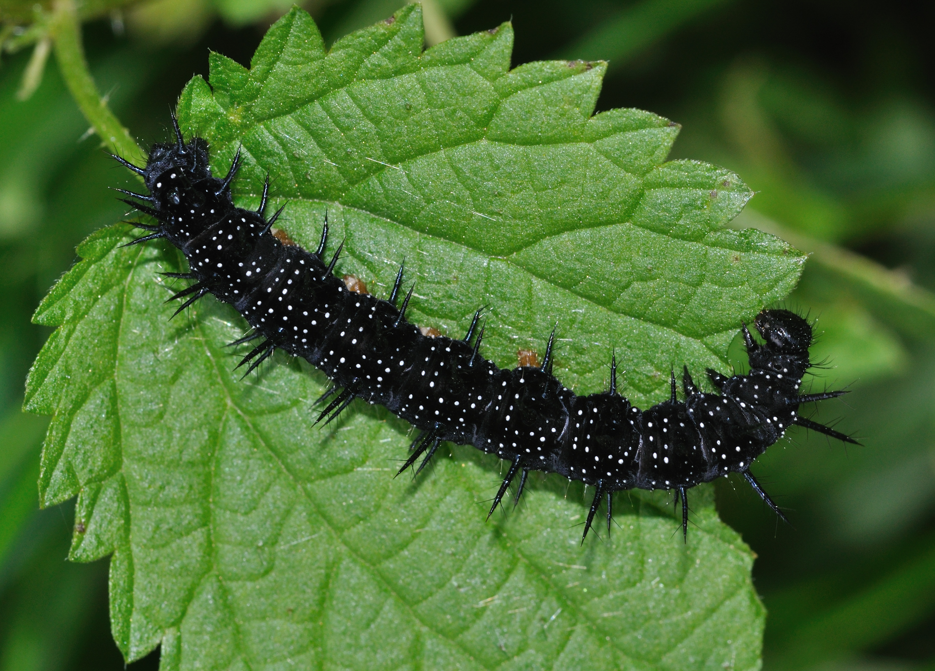 Caterpillar of a Peacock Butterfly (Inachis io) gnawing at a Stinging Nettle (Urtica dioica) in Oberursel, Germany.